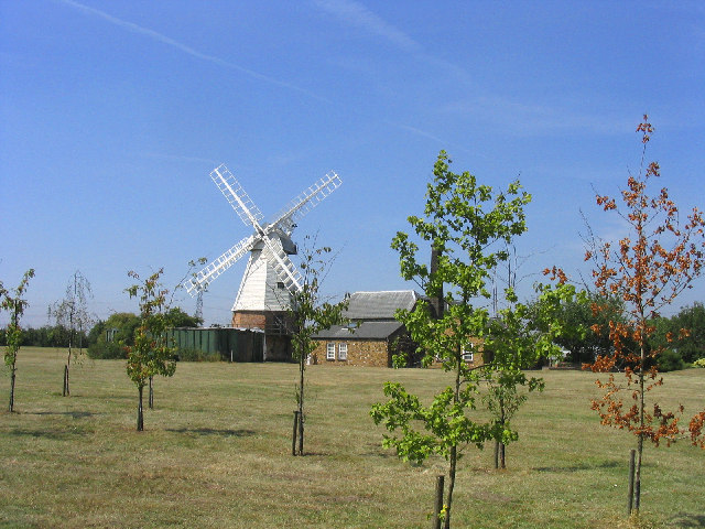 Baker Street Mills, Baker Street, Orsett, Essex, seen from the northeast